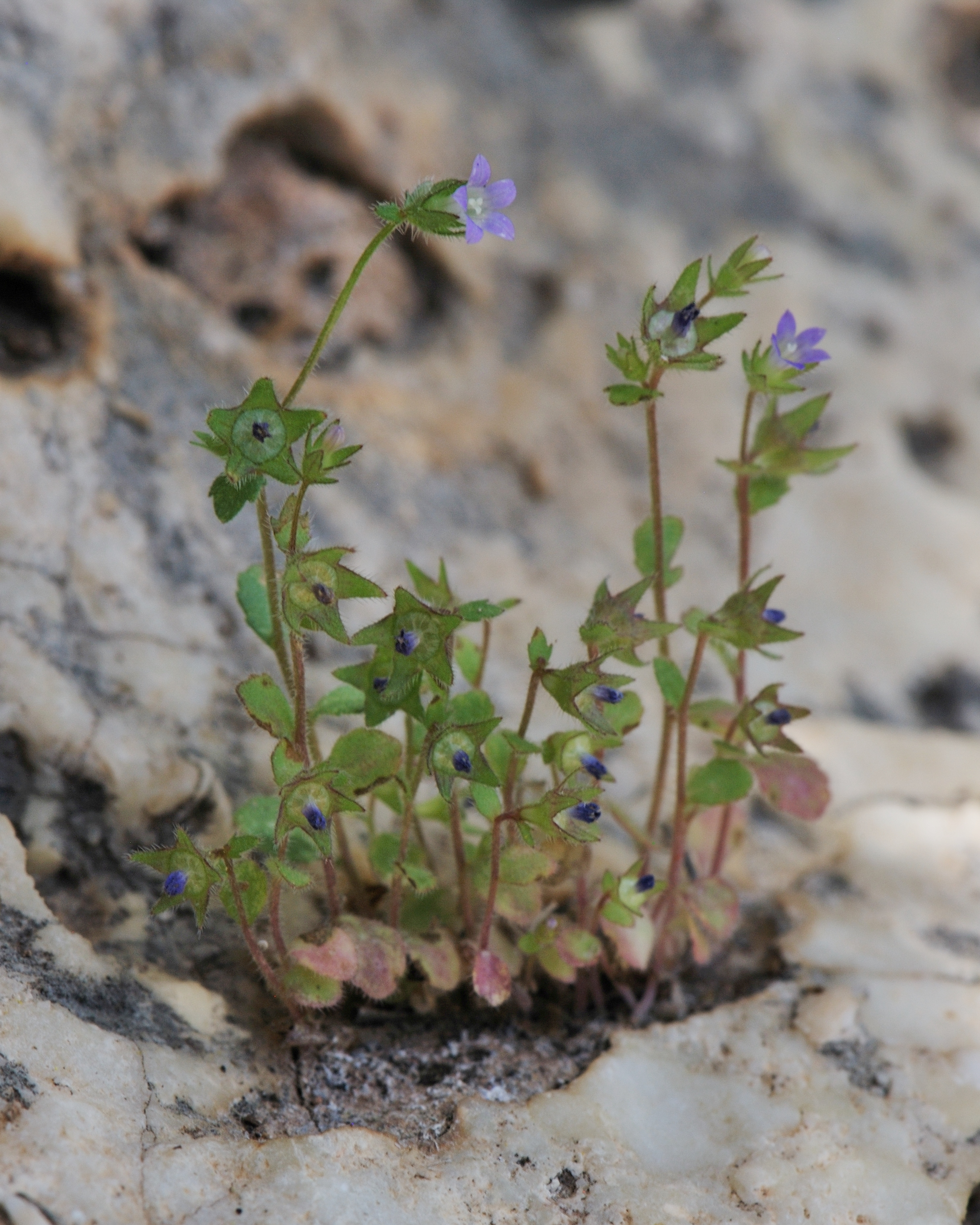 Campanula erinus L., Mount Carmel, Israel, April 17, 2011.